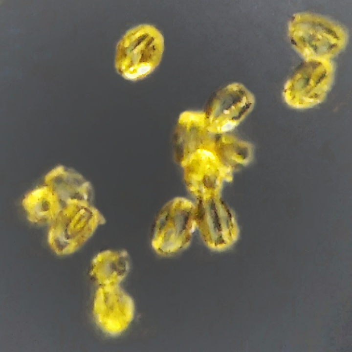 Pollens of Azadirachta indica